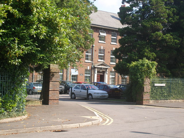 Tonna Hospital. Tonna Hospital is currently a local base for the Psychiatric Services for the Elderly. It was once a children's hospital. Many children left this hospital, minus their tonsils.